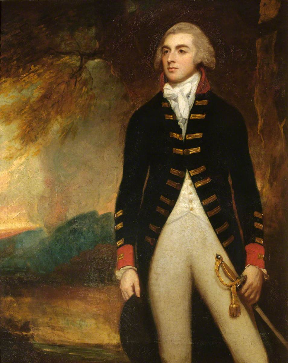 John Richard West, 4th Earl de la Warr (1757-1783), three-quarter-length in naval uniform